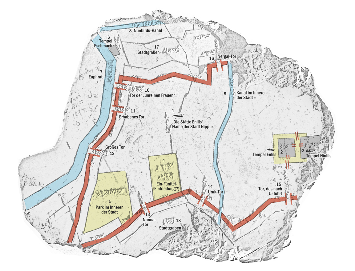 Clay tablet containing city map of Nippur with (german) translations by Samuel N. Kramer